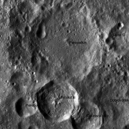 Perepelkin lunar crater - LROC image